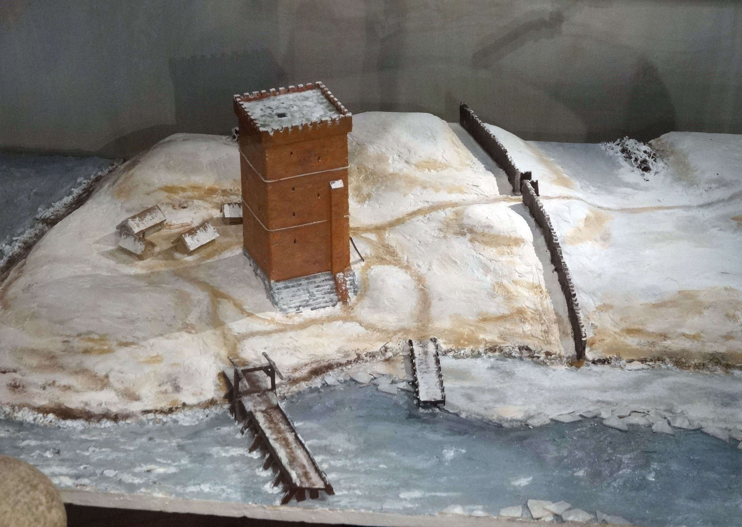 Model of the Danish castle Falkenbergshus, as it may have looked in the early 14th century.